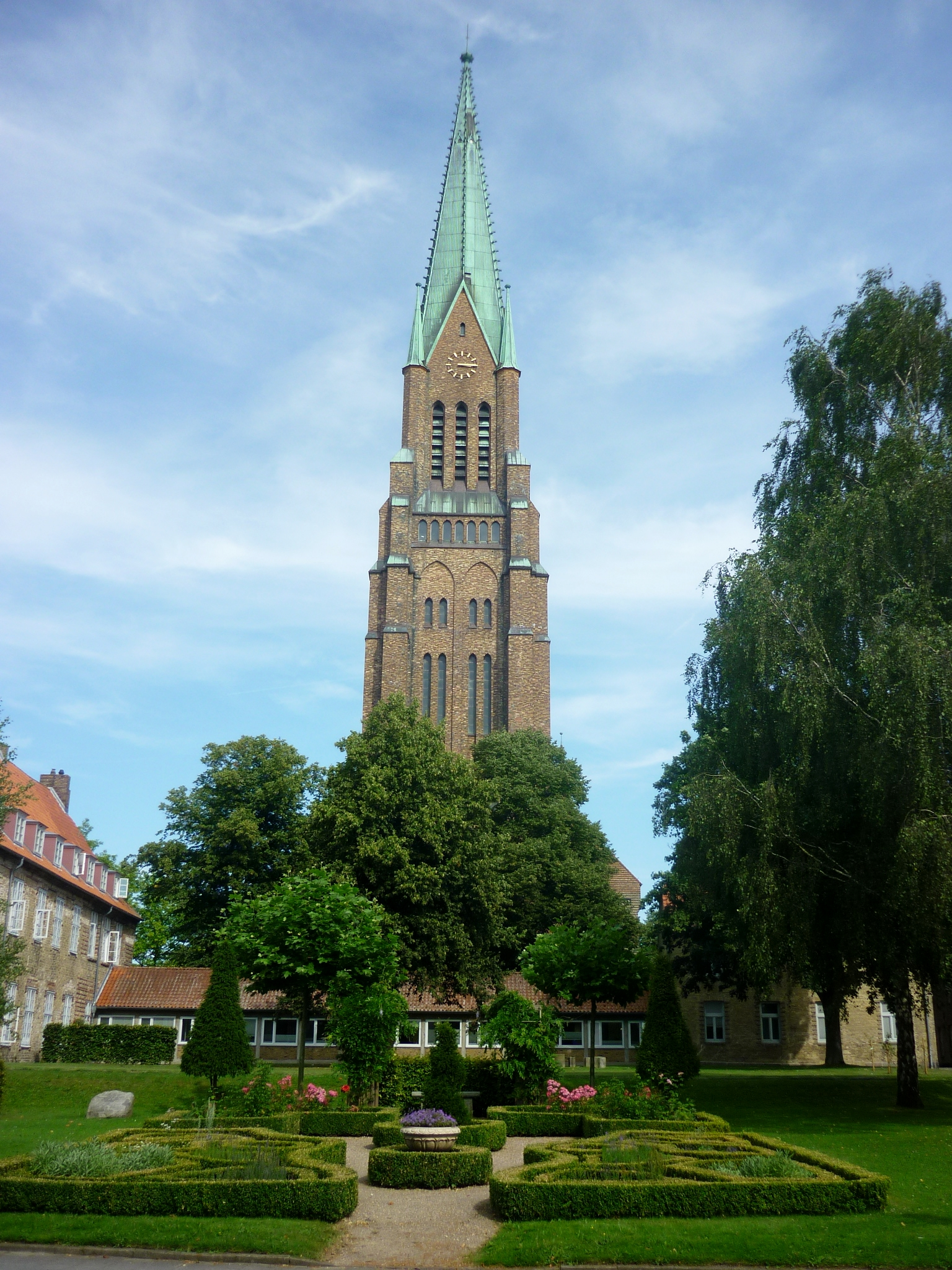 Schleswig Cathedral